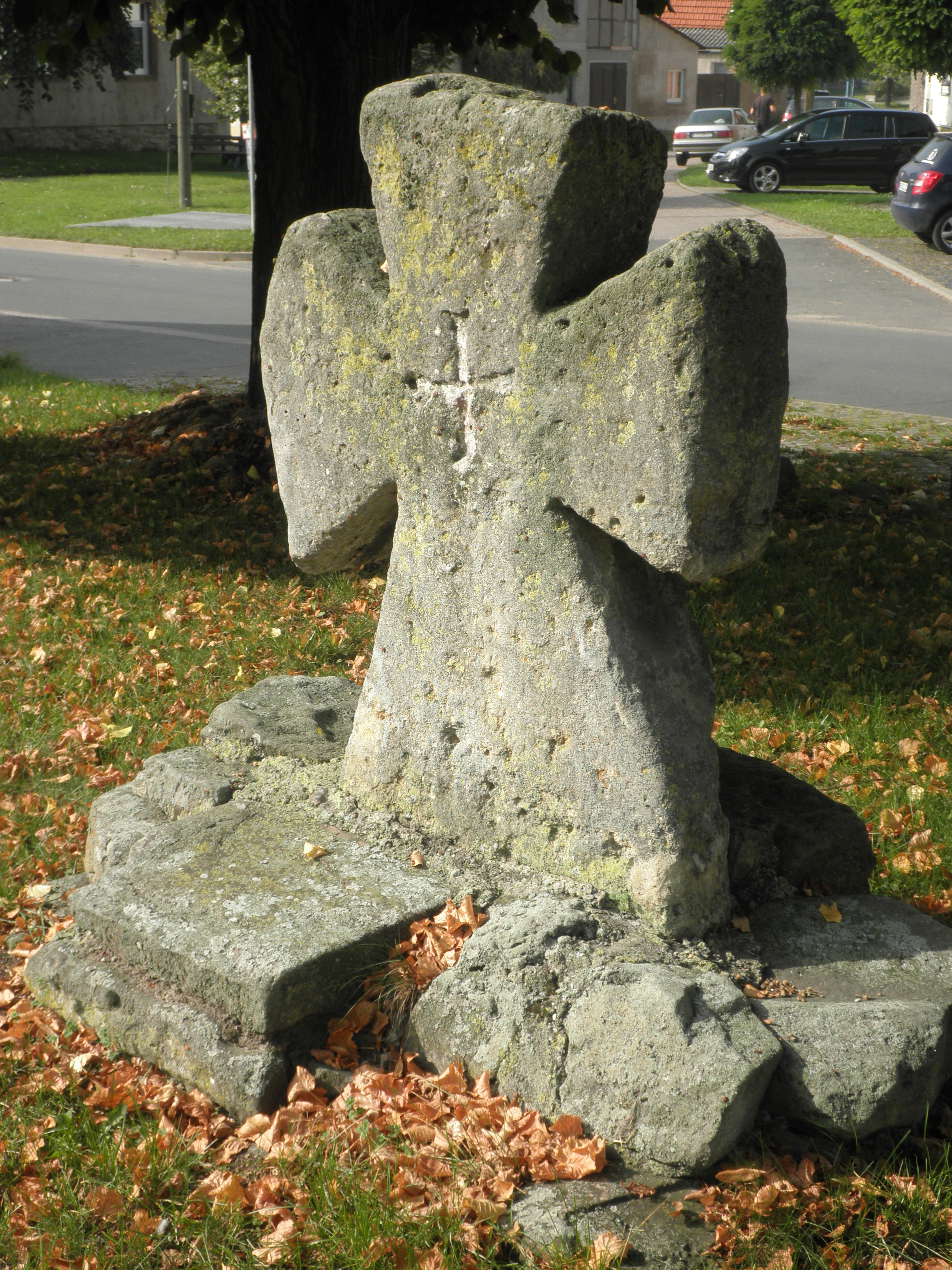 Stone Cross in Oberheldrungen in Thuringia